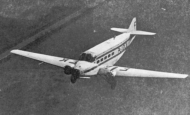 Wibault-Penhoët 281 T.10 photo from Annuaire de L'Aéronautique 1931